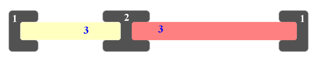 Schematic depiction of H- and U-shaped lead came cross sections, with embedded glass pieces. Self created graphics.